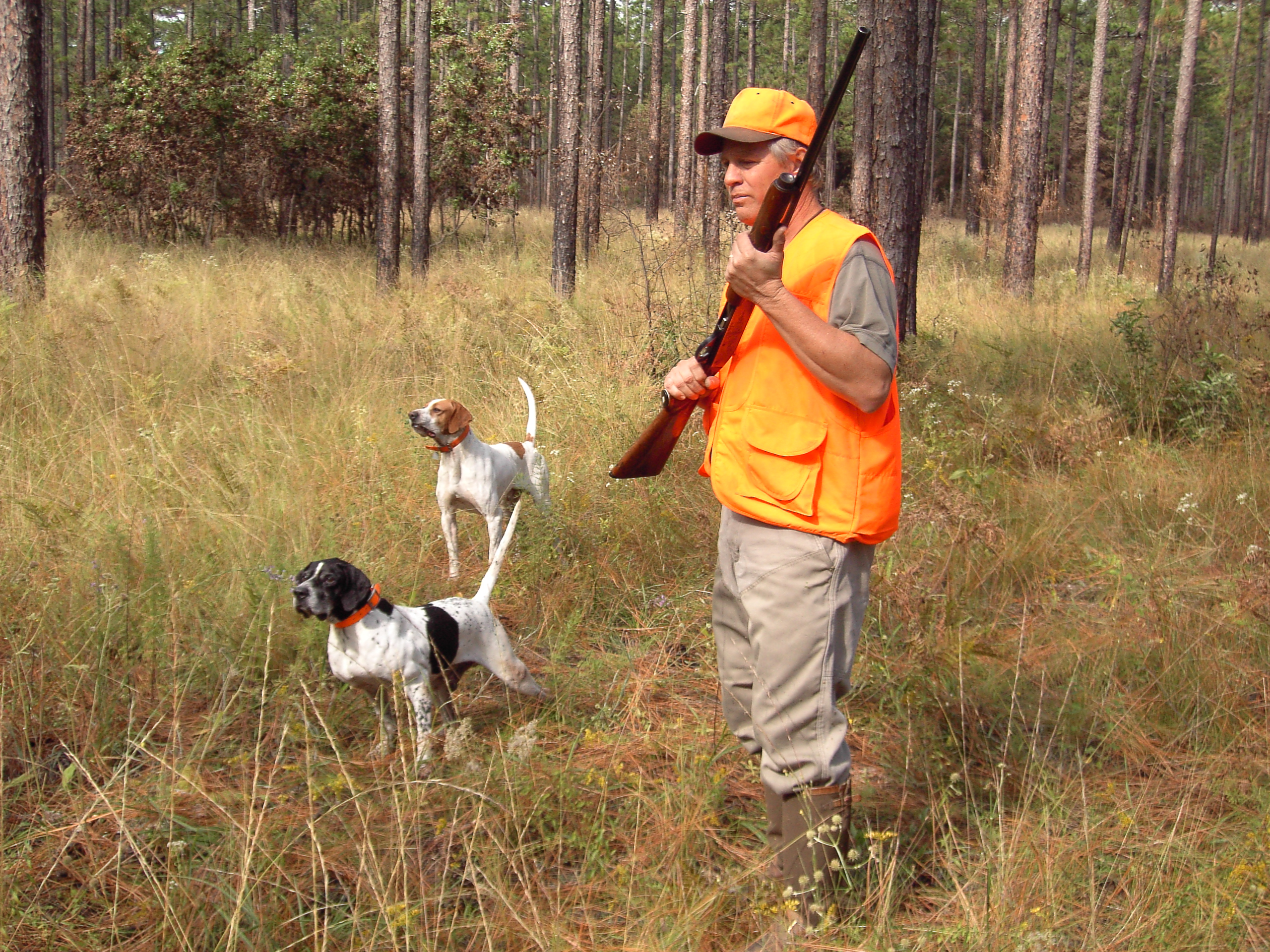 21st century modern male hunter, holding a shotgun, wearing an orange hat and vest, with two pointing breed gun dogs (English Pointer), hunting for Bobwhite quail birds (Colinus virginianus) in a Florida pine forest.